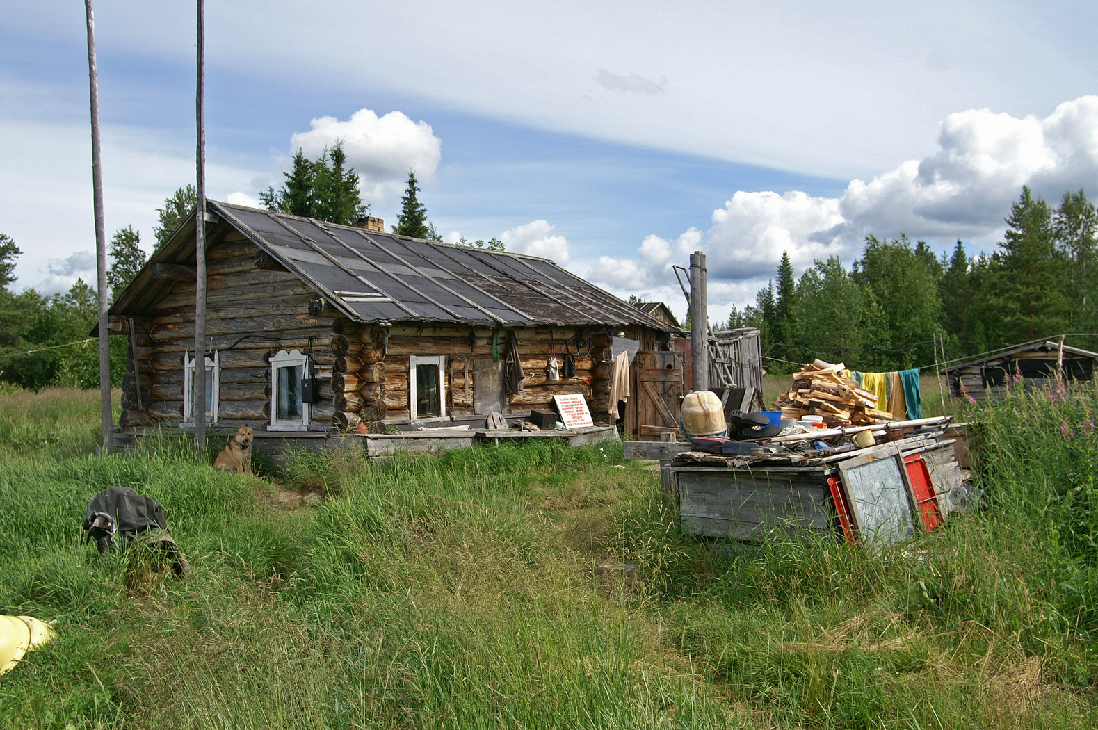 Log house in Murmansk Oblast, Northwest European Russia.